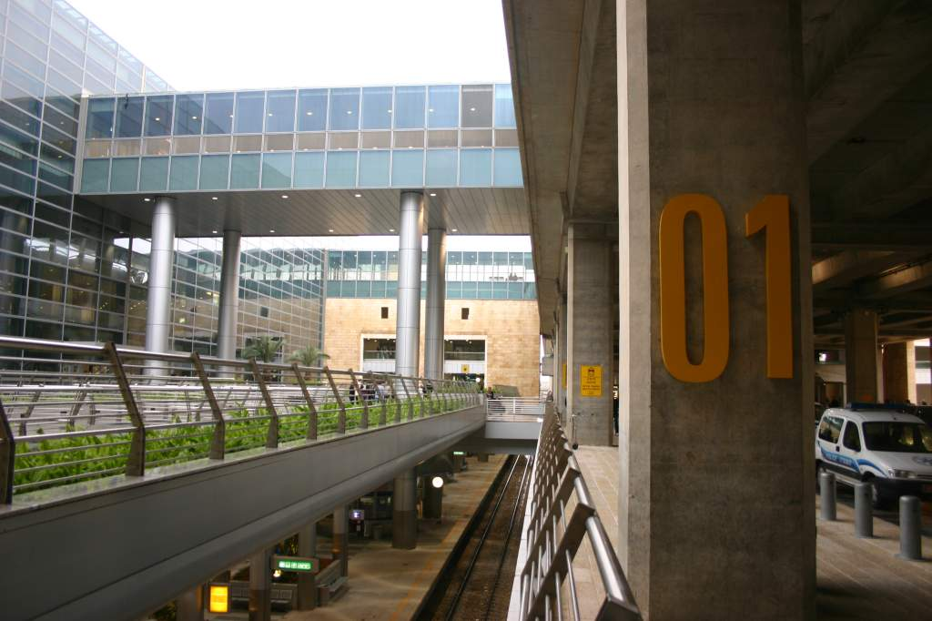 Entrance to Terminal 3 - Ben Gurion Airport (TLV)